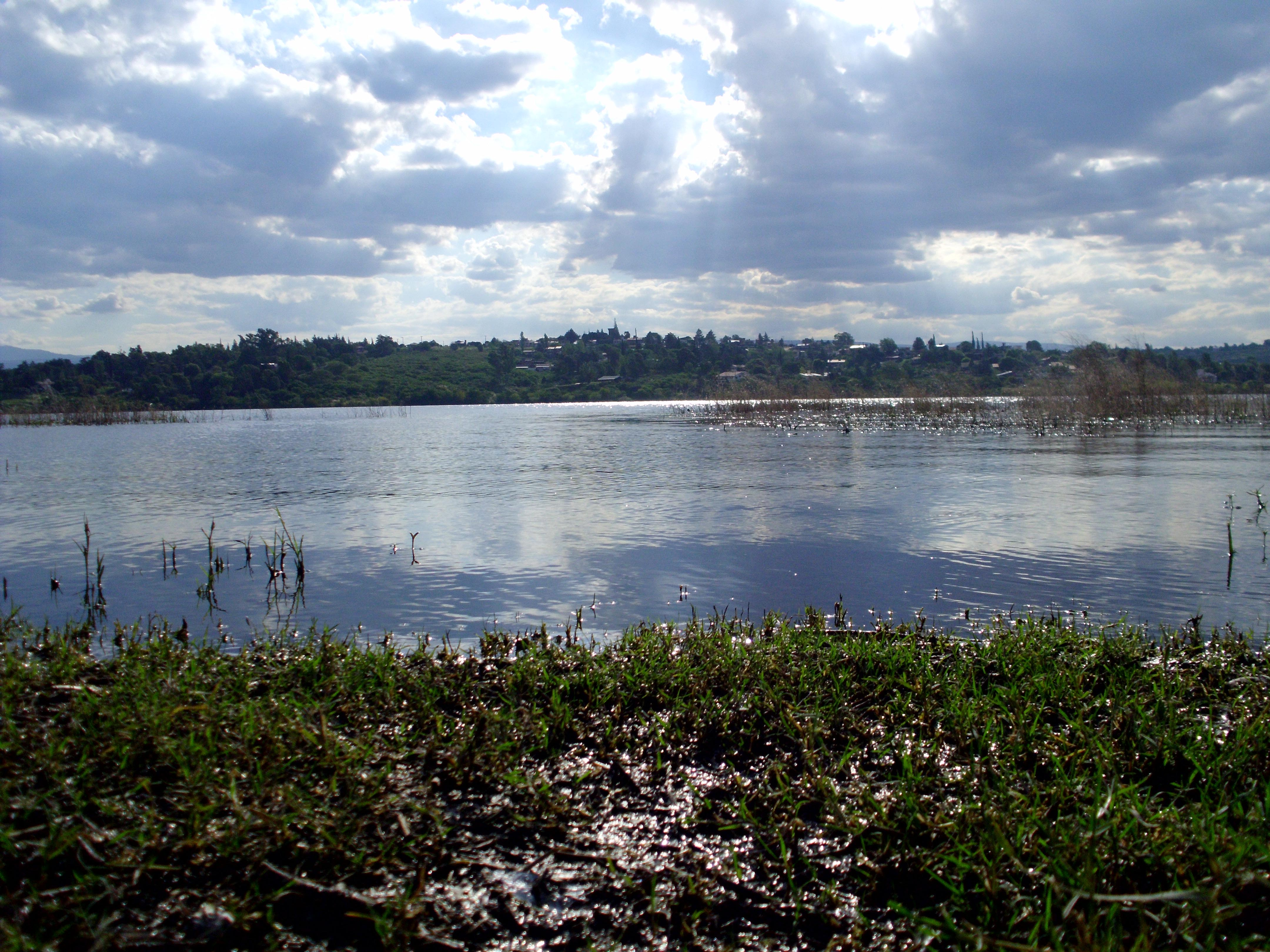 Coastline of San Roque lake, Córdoba Porvince, Argentina.